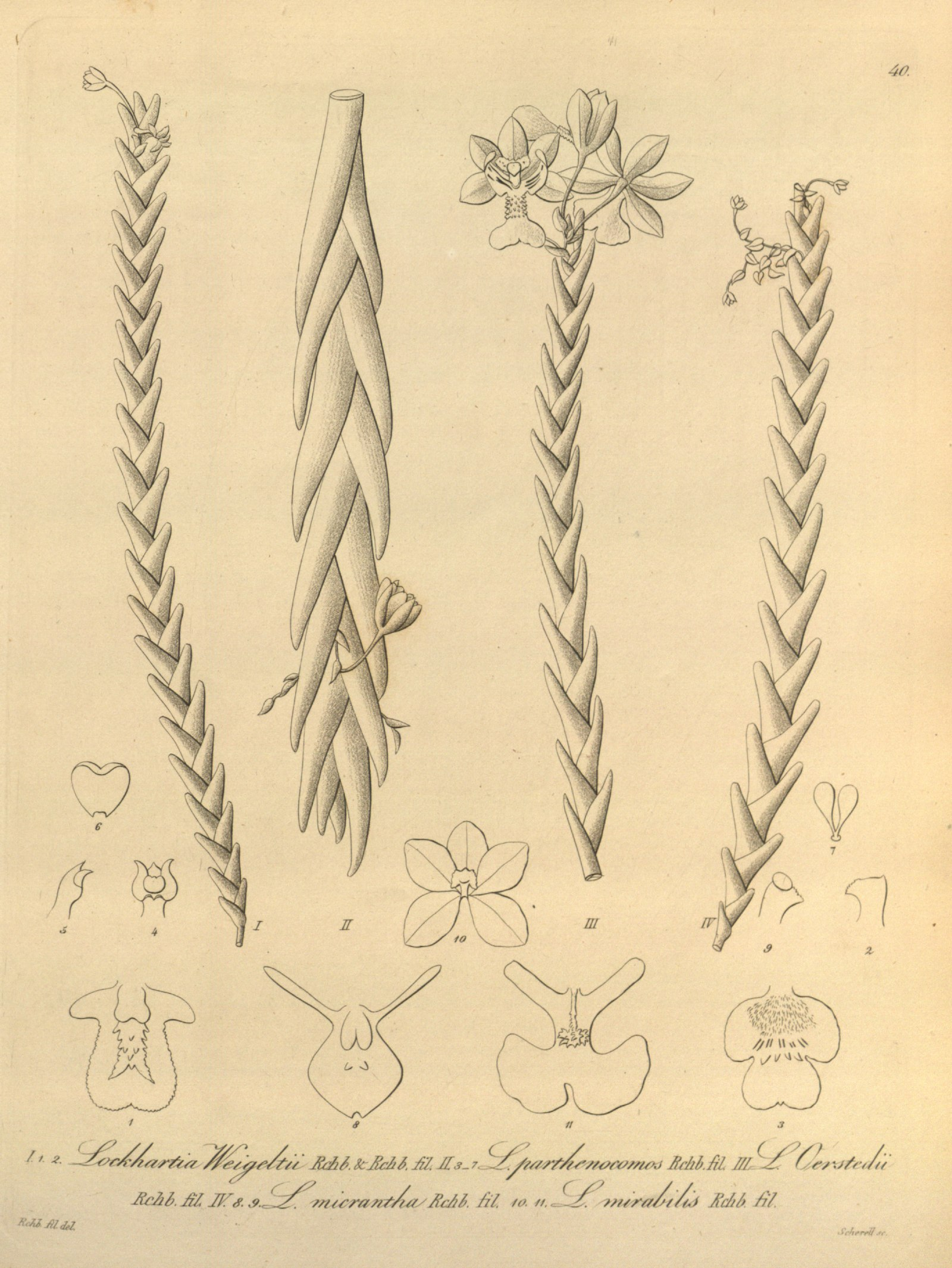 Illustration of Lockhartia imbricata (as syn. Lockhartia weigeltii) Lockhartia parthenocomos Lockhartia oerstedii Lockhartia micrantha Lockhartia oerstedii (as syn. Lockhartia mirabilis)